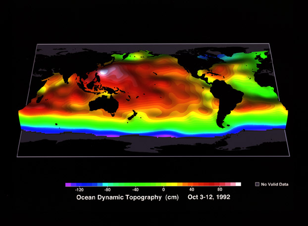 TOPEX/Poseidon was the first space mission that allowed scientists to map ocean topography with sufficient accuracy to study the large-scale current systems of the world's oceans. The total relief of ocean topography shown in this image is about 2 meters. The color scale corresponds to the grades of the relief in centimeters. The vertical scale is greatly exaggerated to illustrate the three-dimensional perspective of the topography. In this image, the maximum sea level (shown in white) is located in the western Pacific Ocean and the minimum sea level (indicated by magenta and dark blue) is shown around Antarctica. In the northern hemisphere, ocean currents flow clockwise around the highs of ocean topography and counterclockwise around the lows; this process is reversed in the southern hemisphere. These highs and lows are the oceanic counterparts of atmospheric circulation systems. While the basic structure of these ocean systems is constant, the details of the systems are constantly changing. Although this image was constructed from only 10 days of TOPEX/Poseidon data (October 3 to October 12, 1992), it reveals most of the current systems that have been identified by shipboard observations collected over the last 100 years.